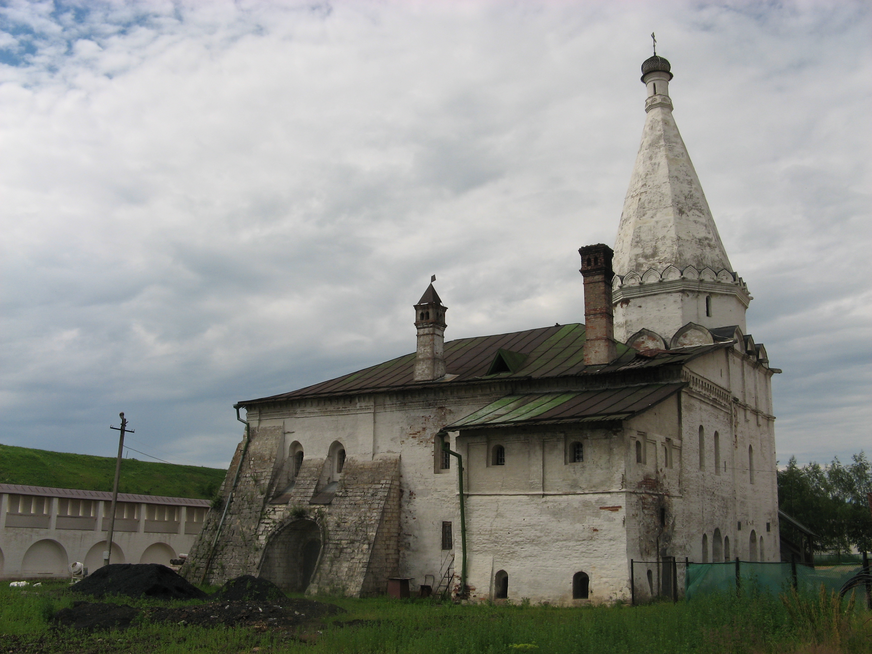 Staritsa, Uspensky Monastery. Refectory and Church of the Entry of the Theotokos into the Temple, built in 1570.